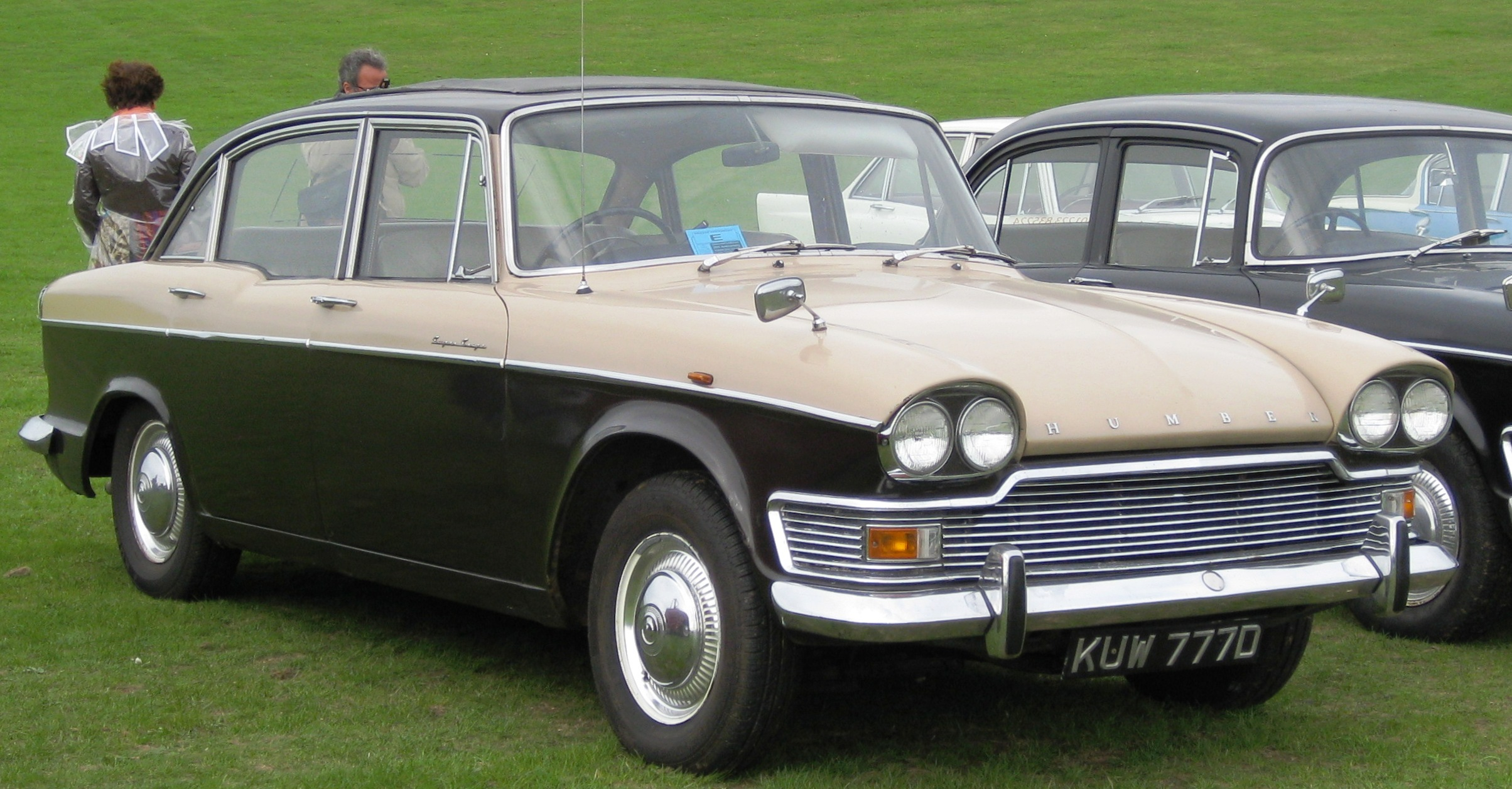 Humber Super Snipe July 1966. This is how the car looked at the time when the manufacturers terminated it.